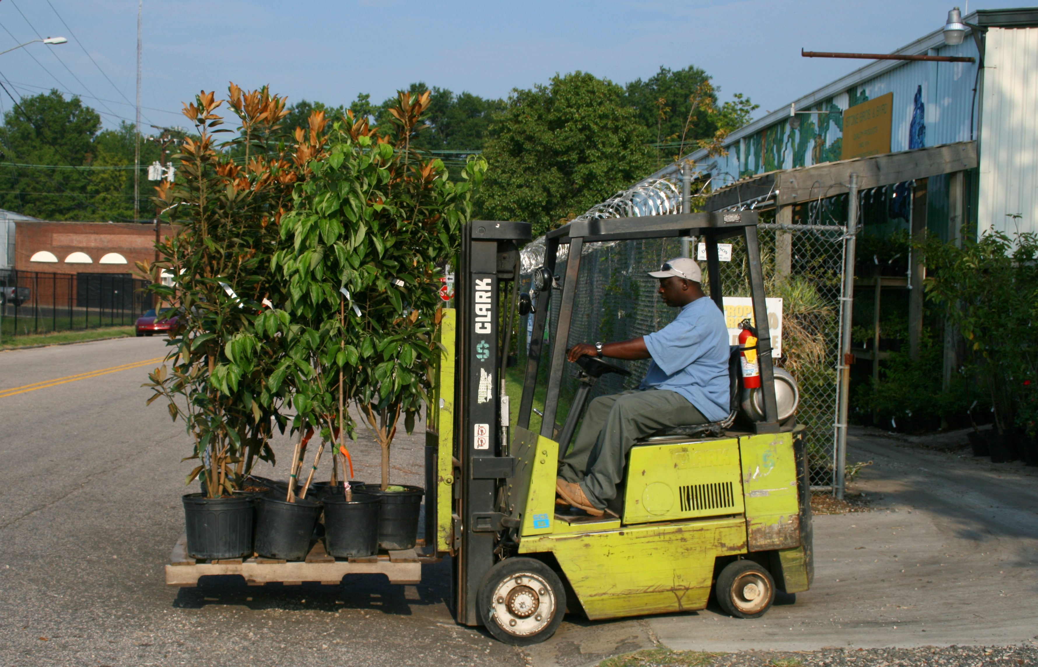 A Clark GCS-15 forklift being carefully used to transport potted trees on a pallet at Stone Bros. & Byrd in Durham, North Carolina.